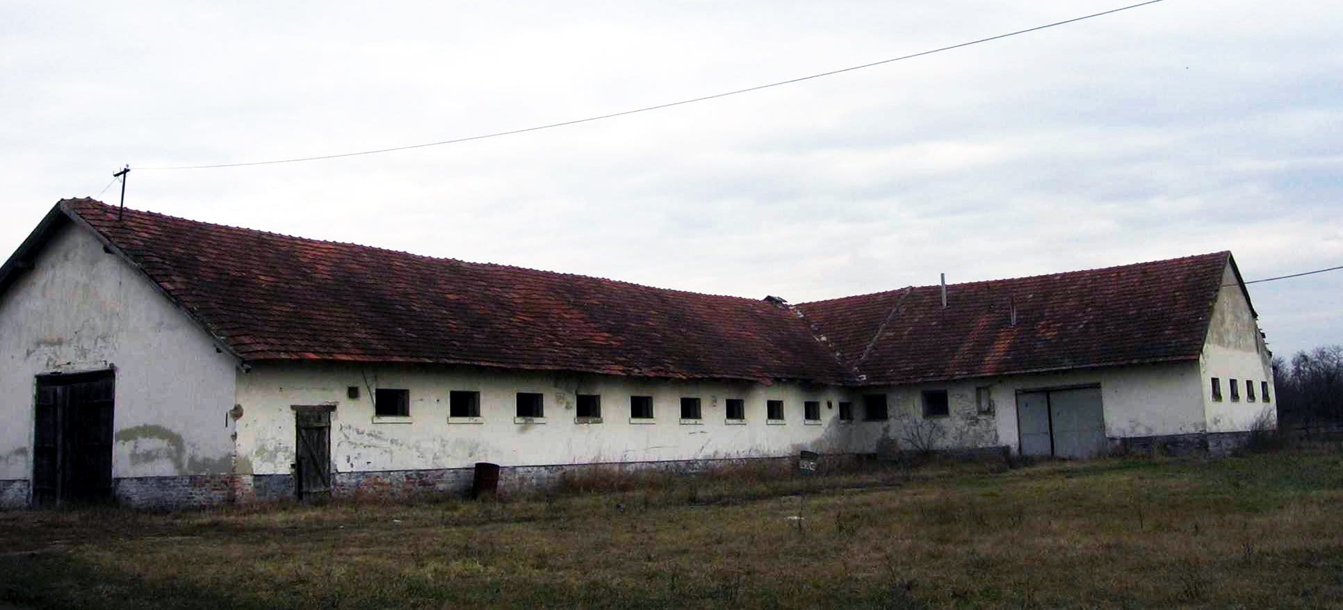 Stables in Livade near Stajićevo in Serbia. Here was a detention camp for people of Vukovar